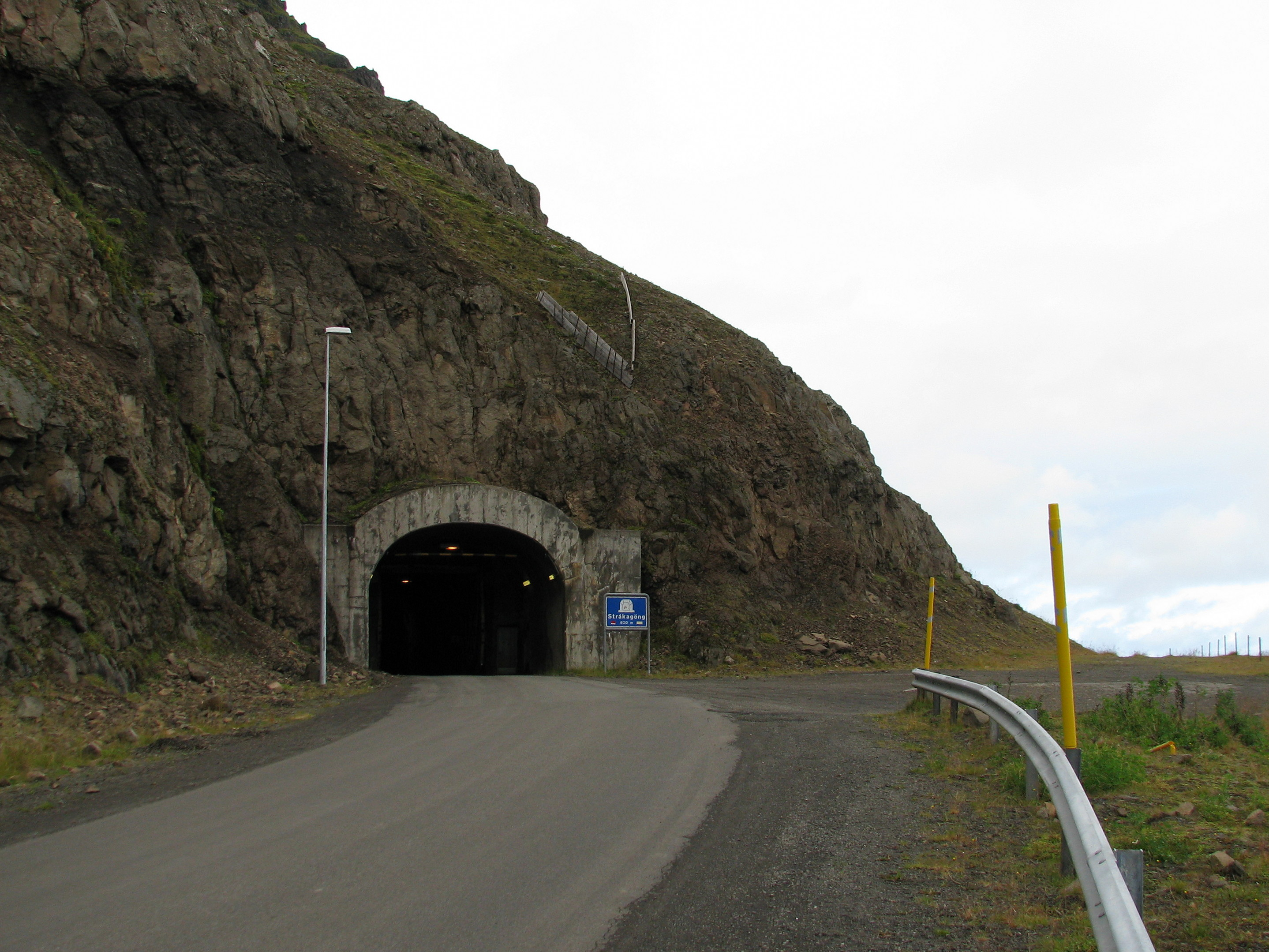 The southern entrance of the Strákagöng, a tunnel in the north of Iceland.